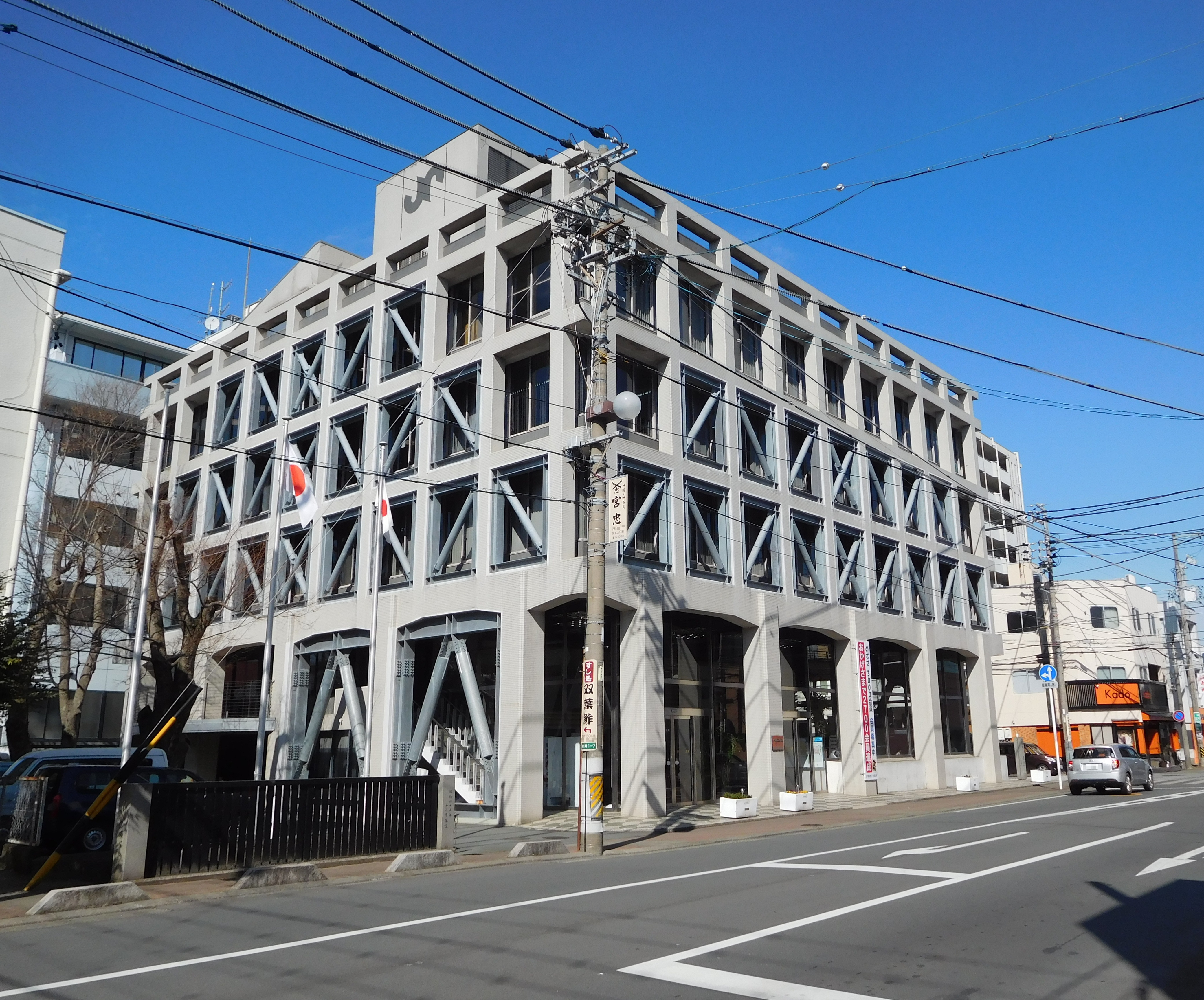 This is Ise Chamber of Commerce Building in Ise, Mie, Japan.